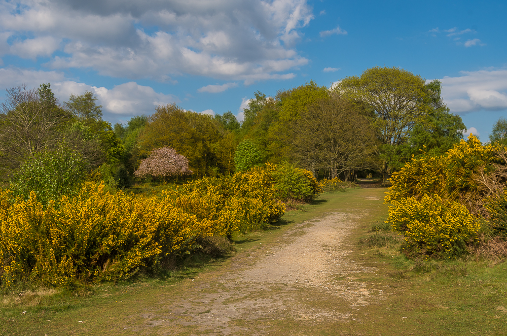 TQ2023753558 from TQ 20214 53546